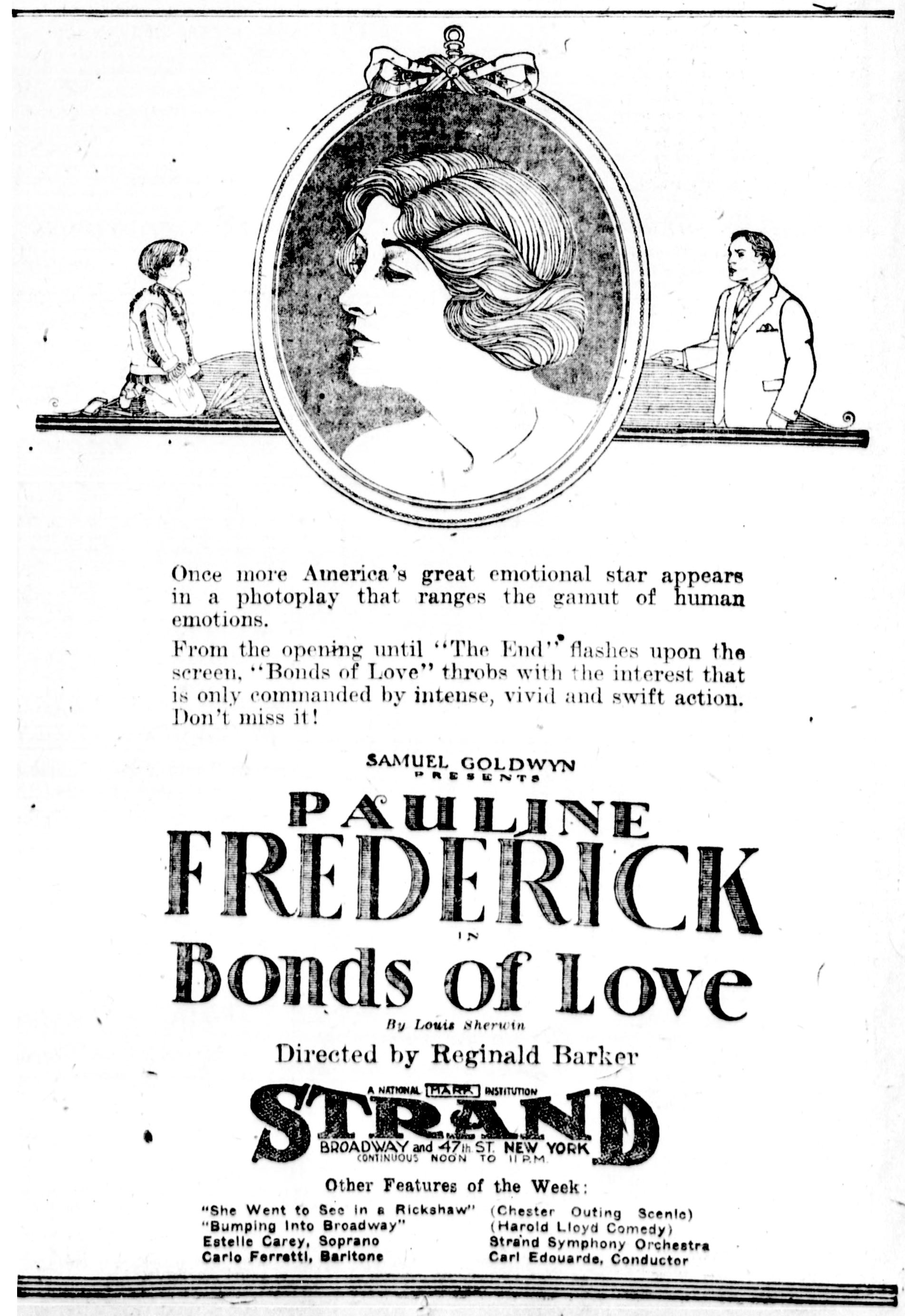 Bonds of Love was a 1919 American silent romantic drama film directed by Reginald Barker and starring Pauline Frederick. This is a contemporary advert for the film.